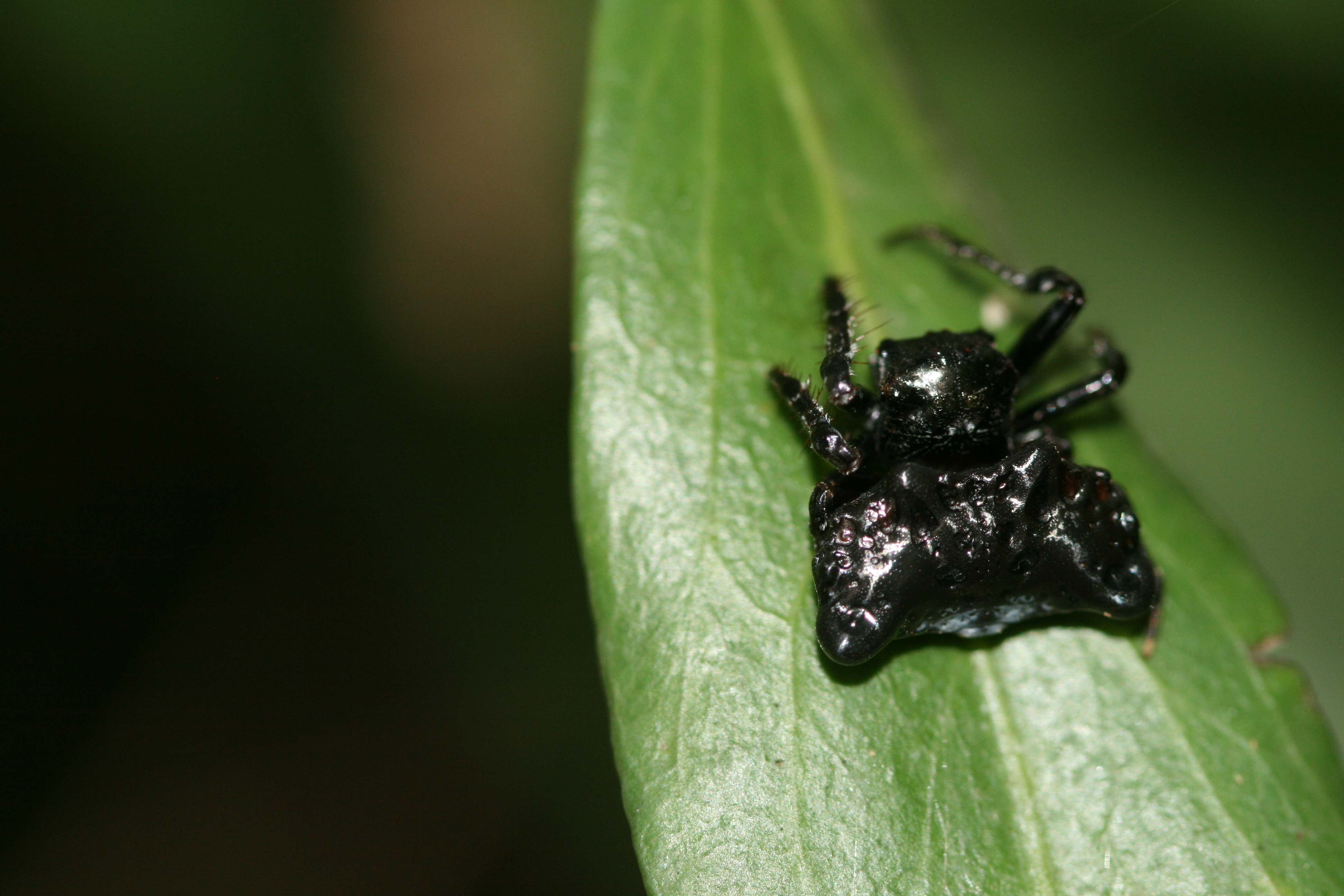 Melanic form of Small Bird Dung Spider (Arkys curtulus) near Toowoomba, Queensland, Australia. Photographed on 14 February 2009.